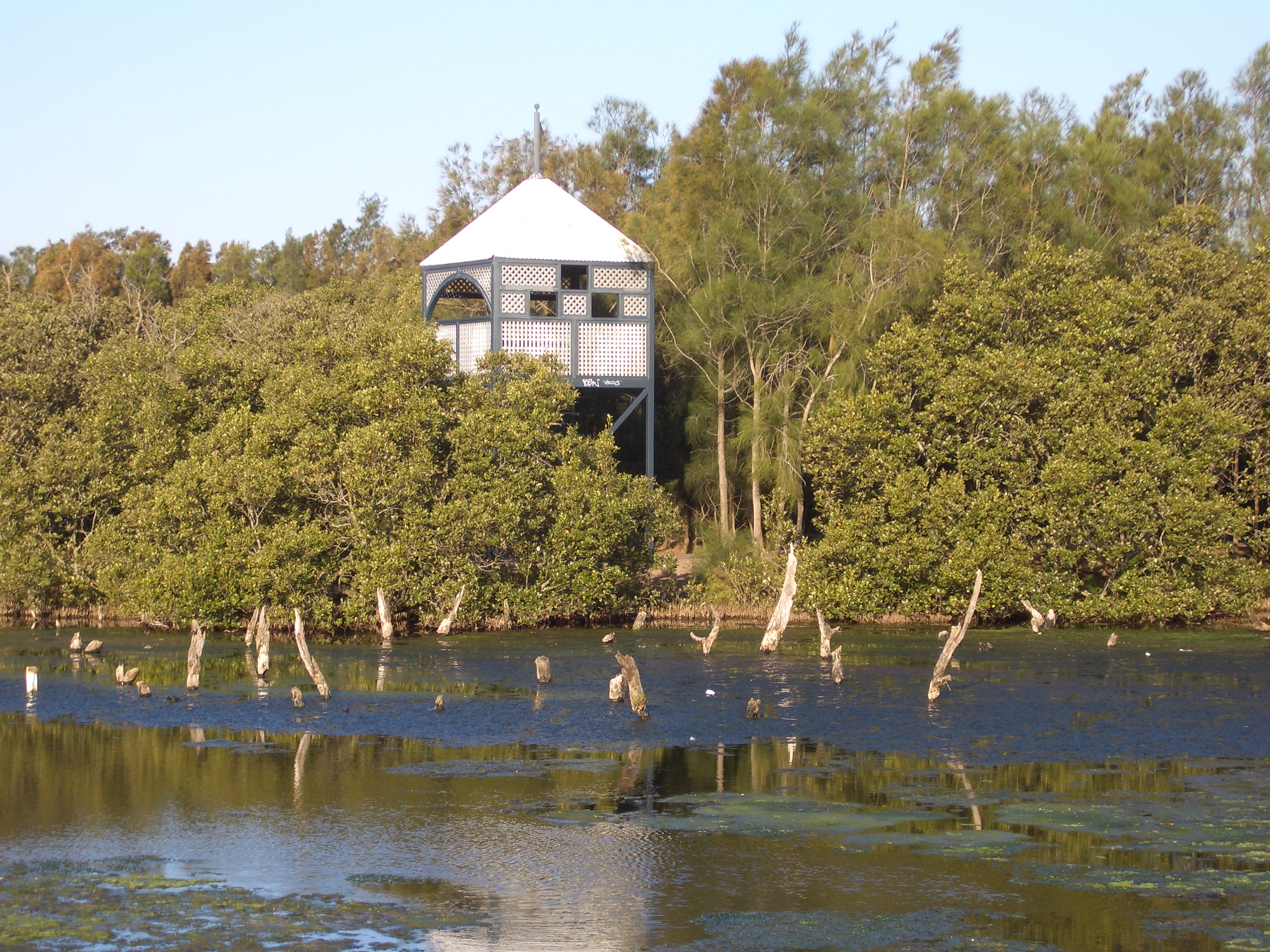 Wetlands at Bicentennial Park, Homebush Bay